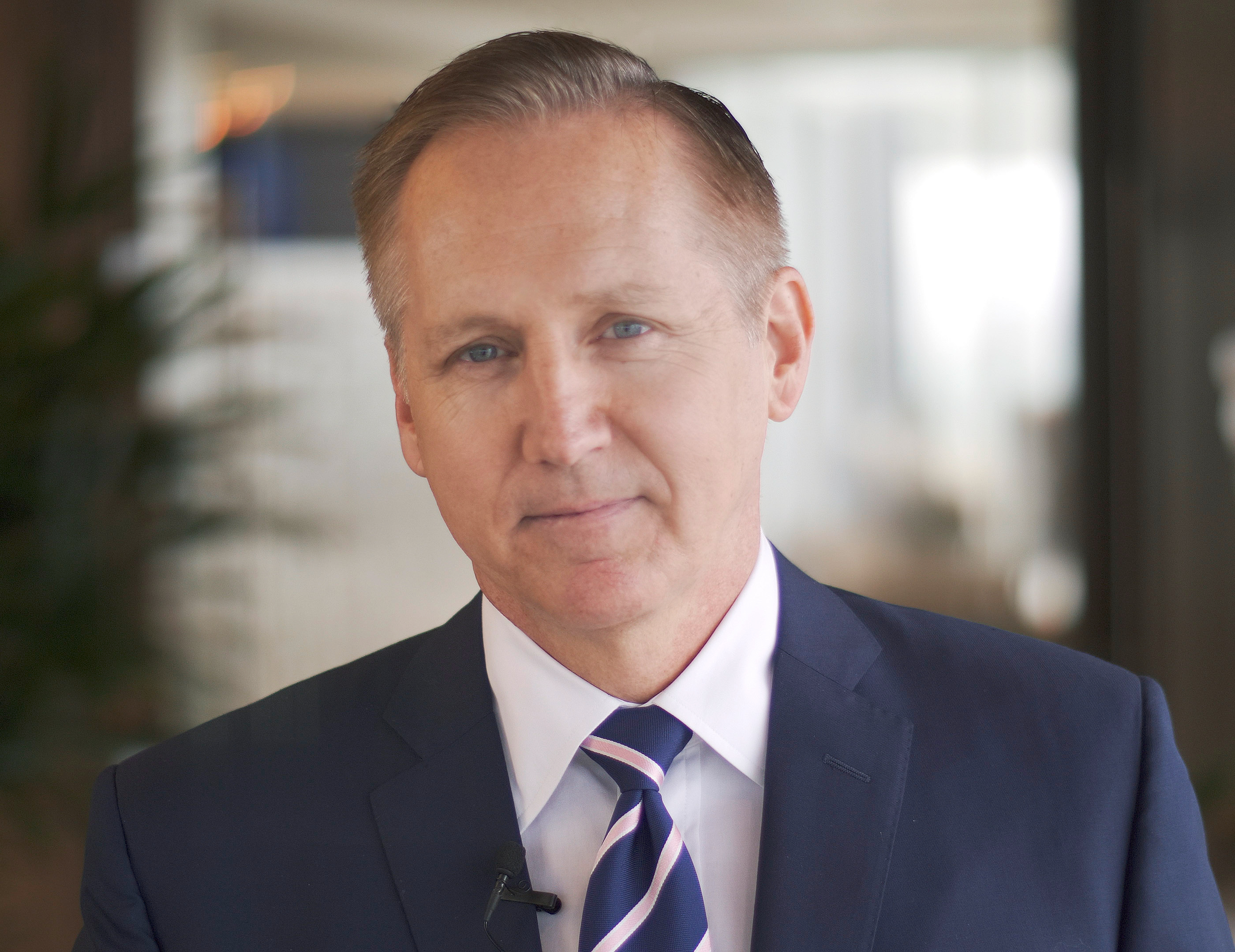 Photo of Jeffrey Martin, ceo of Sempra Energy